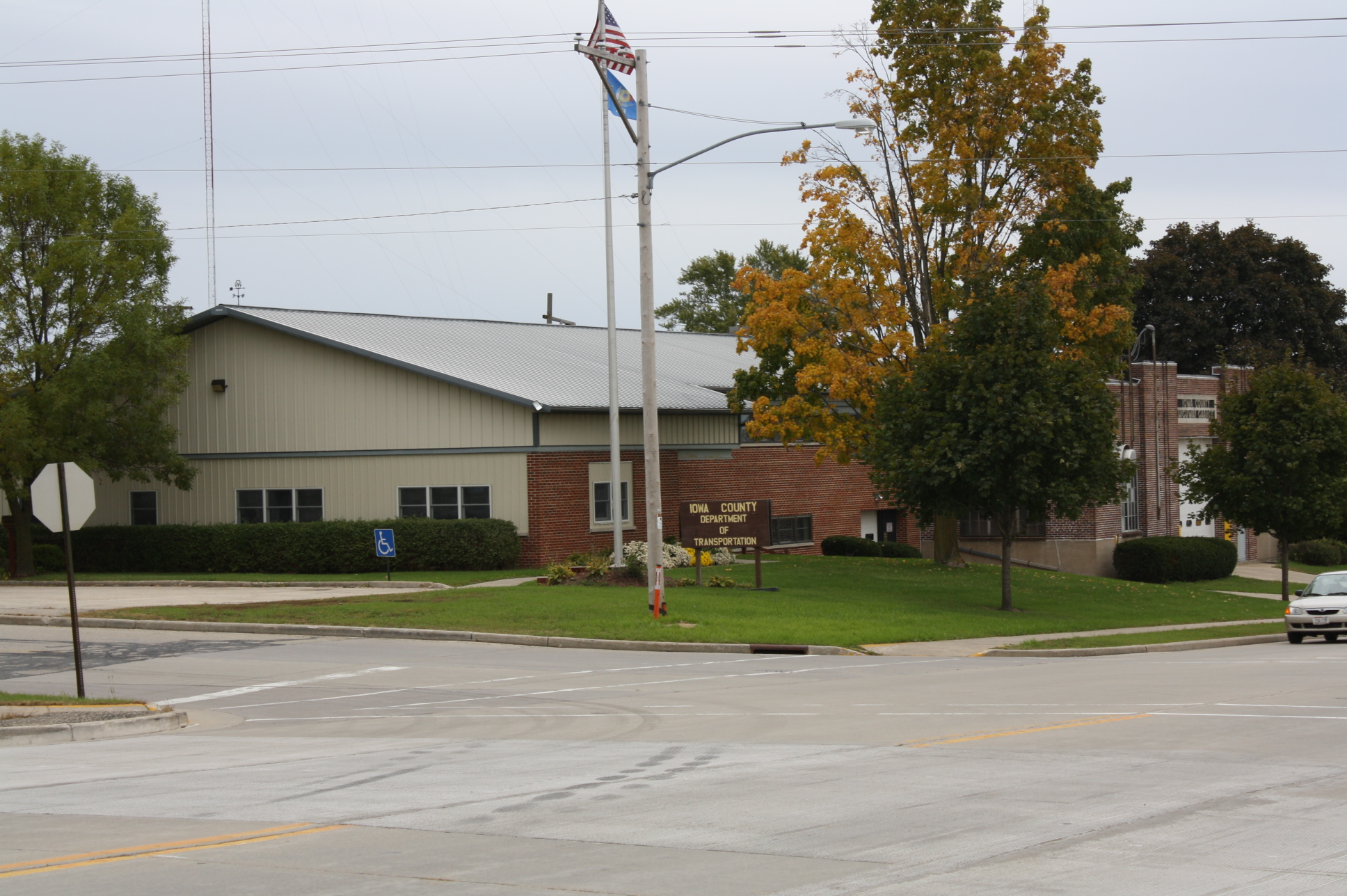 The Iowa County, Wisconsin Department of Transportation building in Dodgeville, Wisconsin along Wisconsin Highway 23.